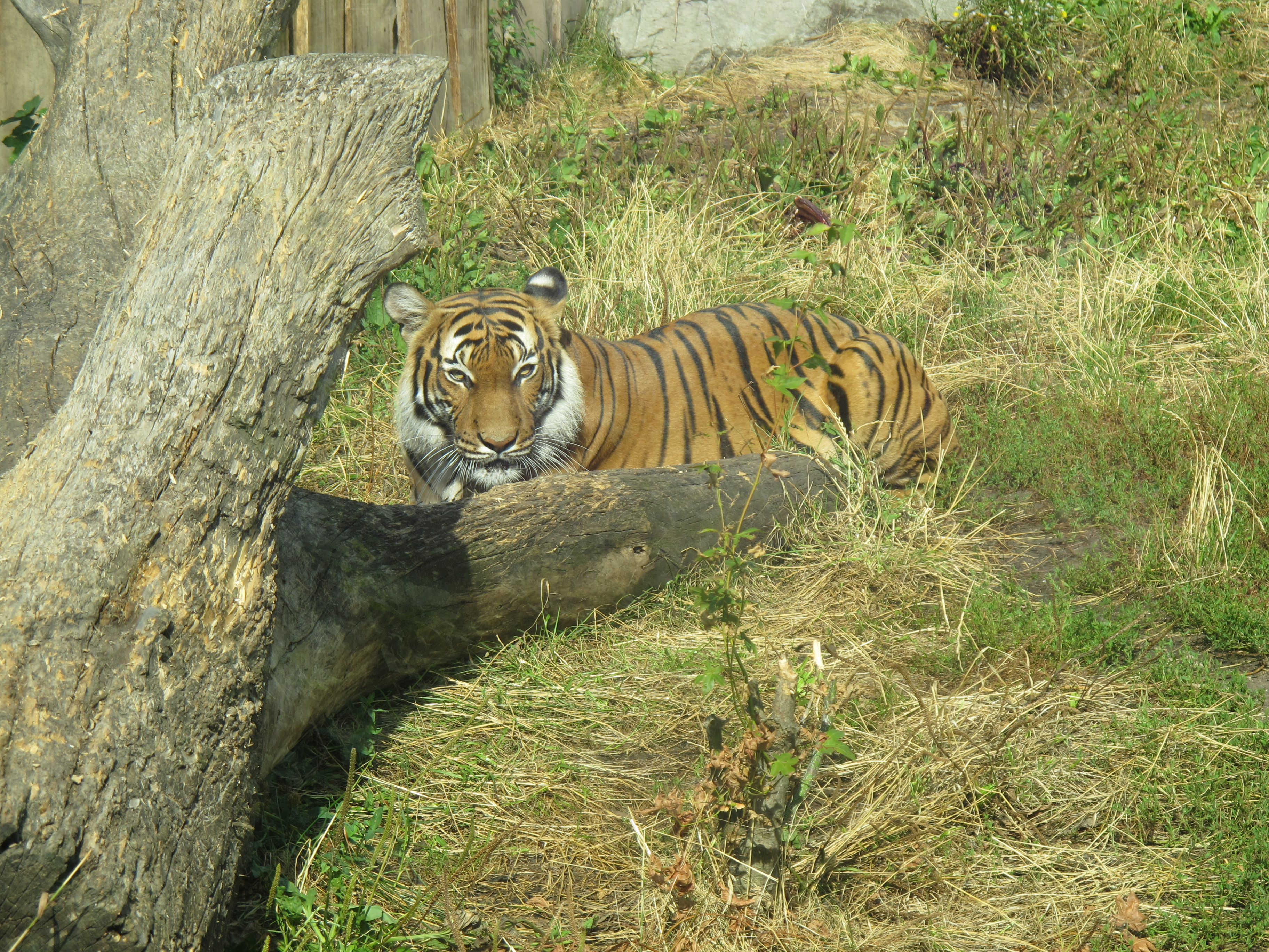 Enclosure of Carnivora House in Ústí nad Labem Zoo.